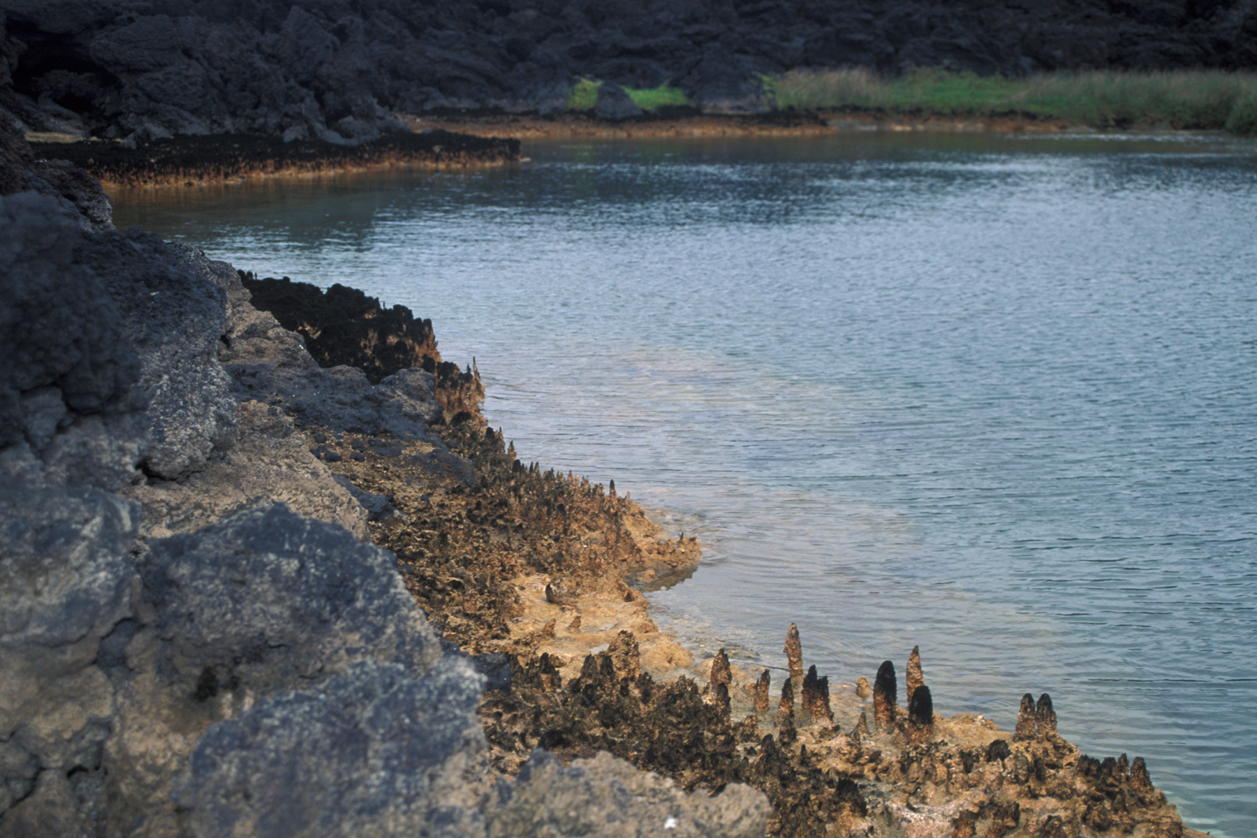 Cyperus laevigatus (habitat). Location: Maui, Ahihi Kinau